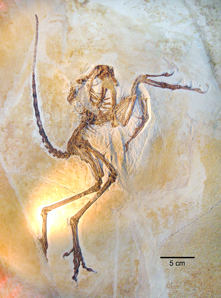 Almost complete skeleton of Archaeopteryx lithographica (original fossil - not a cast), on display at the 2009 Munich Mineral Days. This specimen is called “the sixth specimen” or “Solnhofen specimen”. Its exact provenance is unknown, but it is for sure that it comes from the Solnhofen lithographic limestones of the Altmühl River Valley (southern Franconian Alb, Bavaria, Germany), i. e. the same stratigraphic interval and geographic area as most of the other known specimens of Archaeopteryx. It has been made the type specimen of Wellnhoferia grandis, a genus and species erected in 2001,[1] but this new assignment is not accepted by most paleontologists.